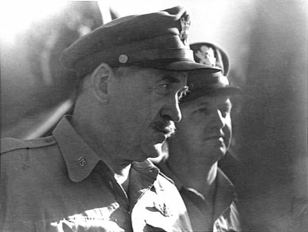 Somewhere in Australia. Brigadier General Martin F. Scanlon, US air chief of the area, with Captain Marburgh of the general's air staff.